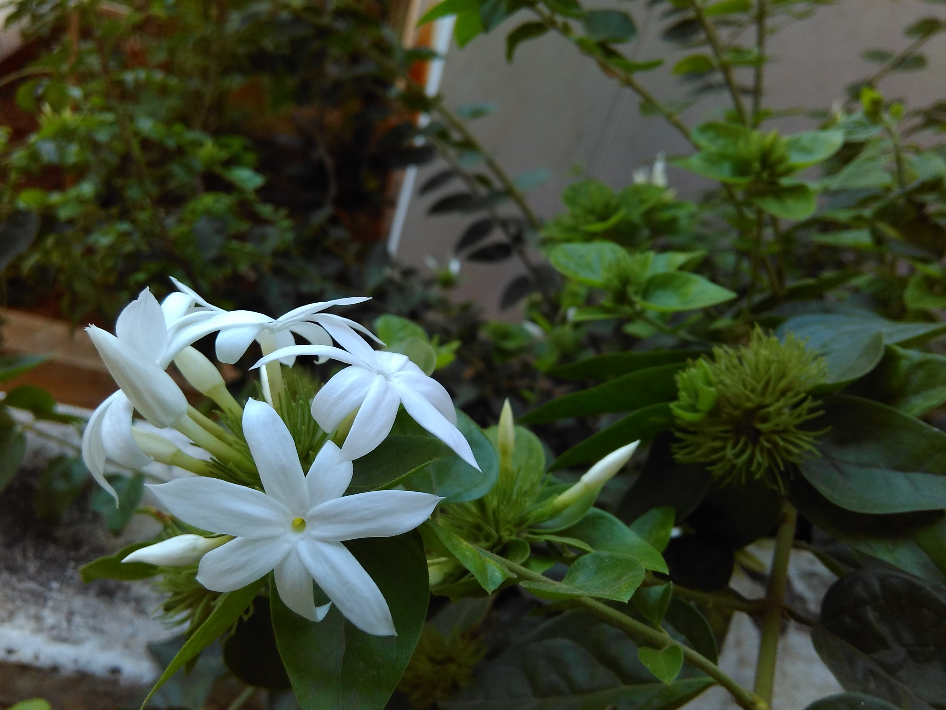 bunch of jasmine flowers